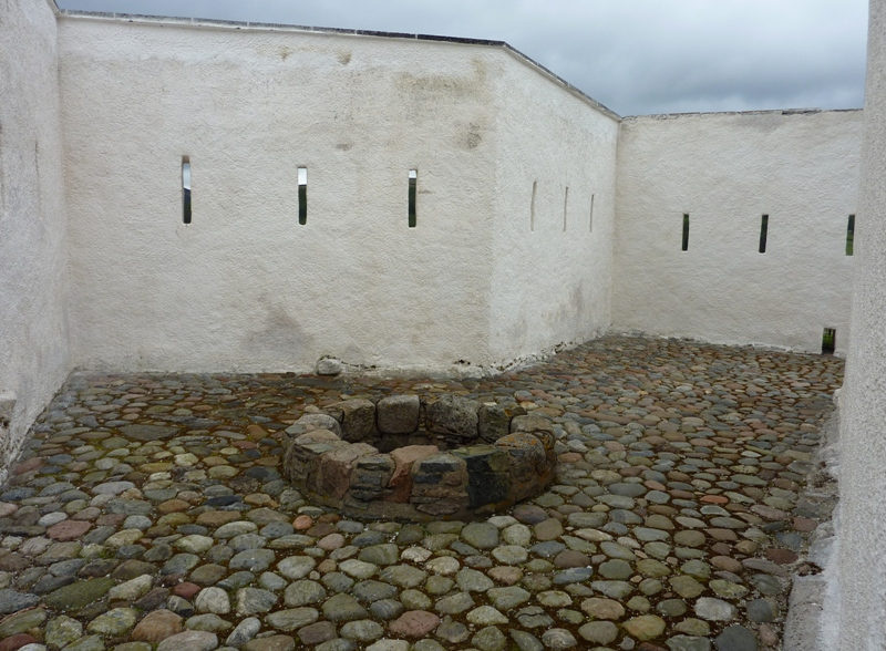 Corgarff Castle, Aberdeenshire, Scotland. Cistern in the courtyard.